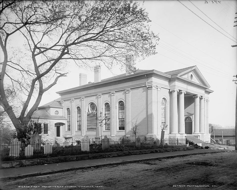 First Presbyterian Church in Knoxville, Tennessee, USA, photographed in the early 1900s.